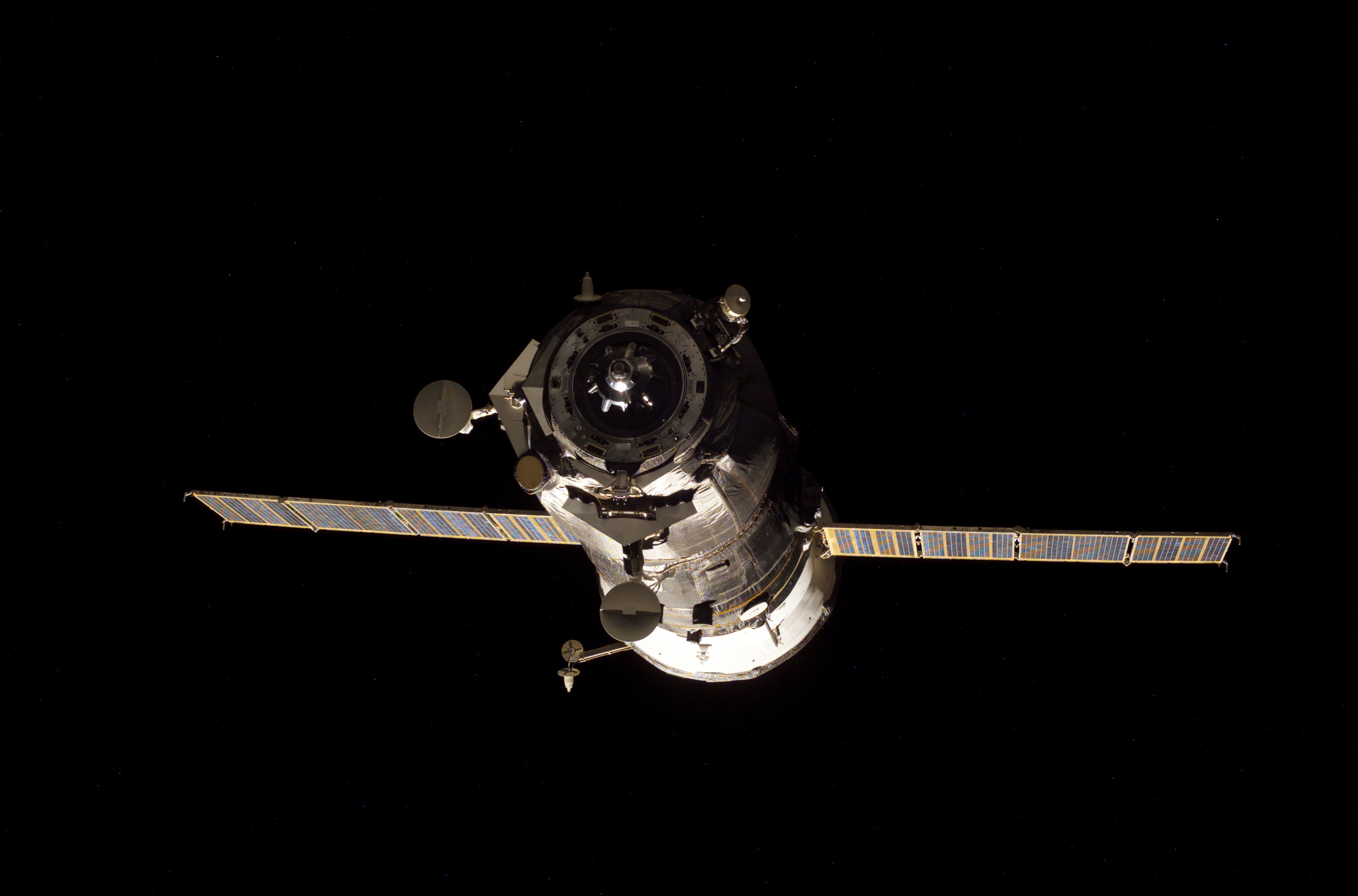 Backdropped by the blackness of space, an unpiloted Progress 20 supply vehicle departs from the Pirs Docking Compartment of the International Space Station on June 19, 2006, carrying its load of trash and unneeded equipment to be deorbited and burned up in Earth's atmosphere. The undocking clears the way for the arrival of a new Progress 22, planned to launch June 24 and dock with the station on June 26.